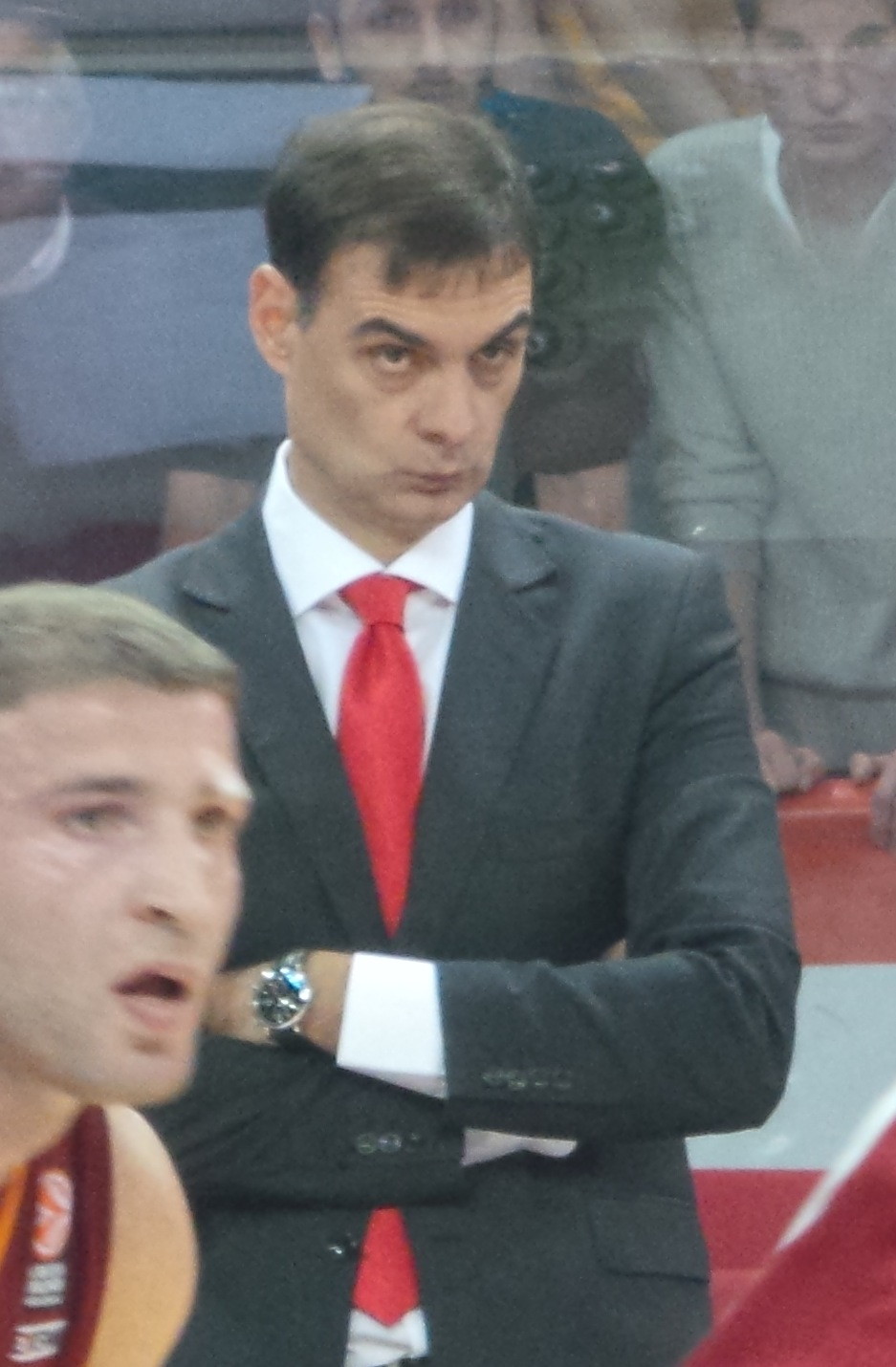 Georgios Bartzokas